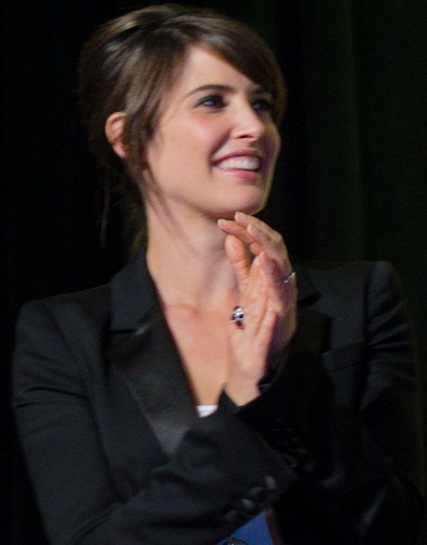 Cobie Smulders promoting The Avengers at the 2011 New York Comic Con.